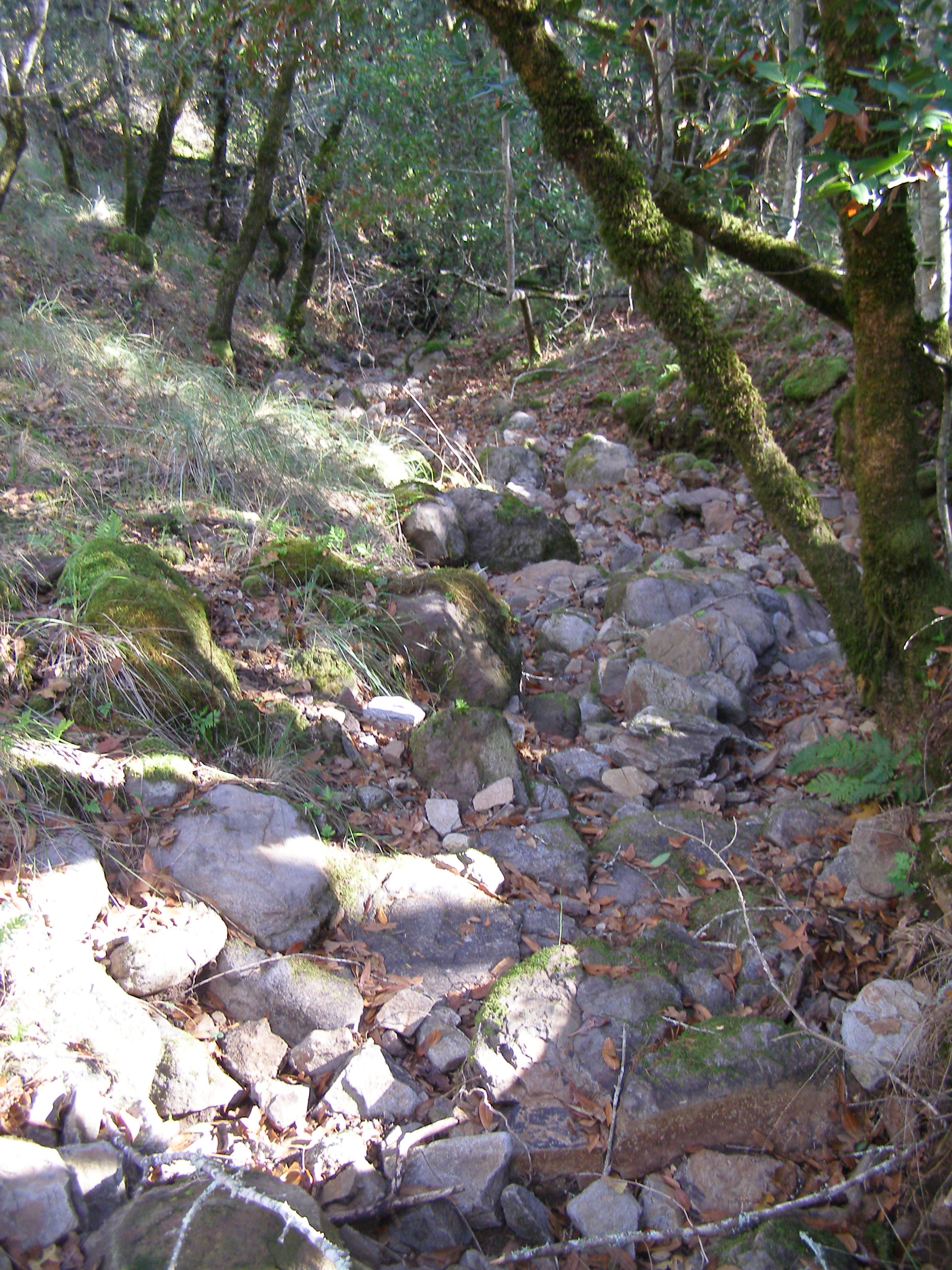 Autumnal observation of upper tributary drainage to Yulupa Creek. Sonoma County Ca.